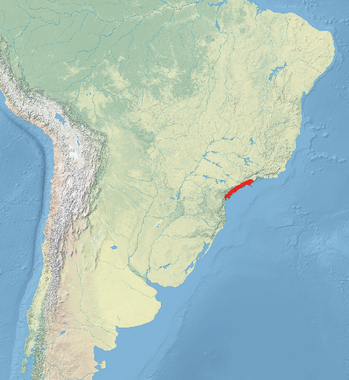 Physalaemus spiniger/Physalaemus spinigerus distribution map basing on OpenStreetMap and IUCN Red List data.